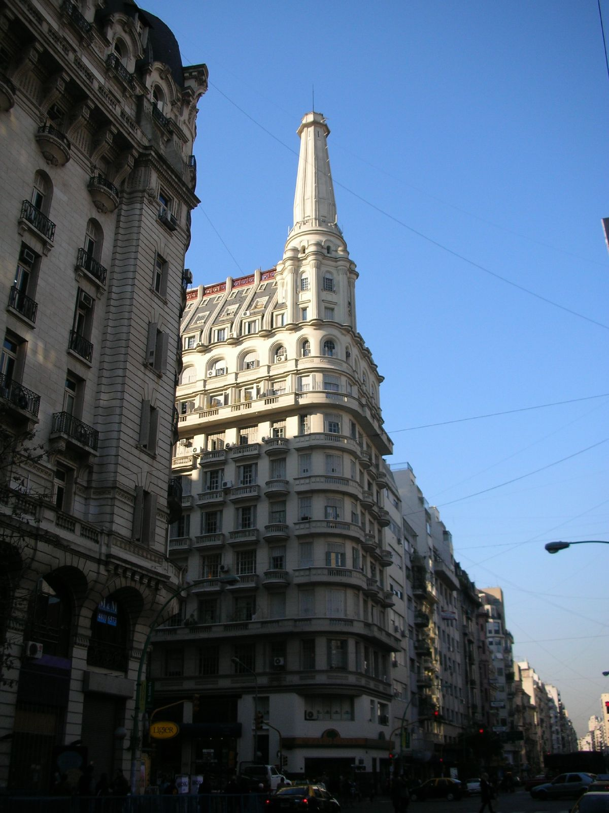 Santa Fe Avenue, Buenos Aires. The Roccatagliata Building (Mario Palanti, 1920) is in the middle.